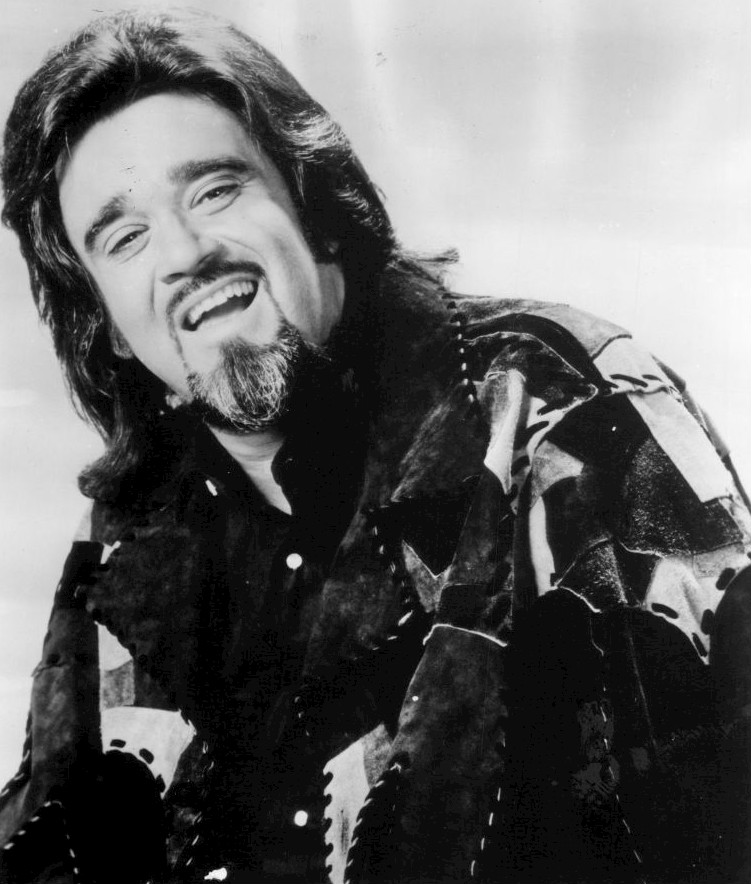 Publicity photo of disc jockey Wolfman Jack, who was named national chairman of the Easter Seals' society's Disco Dance a Thon.